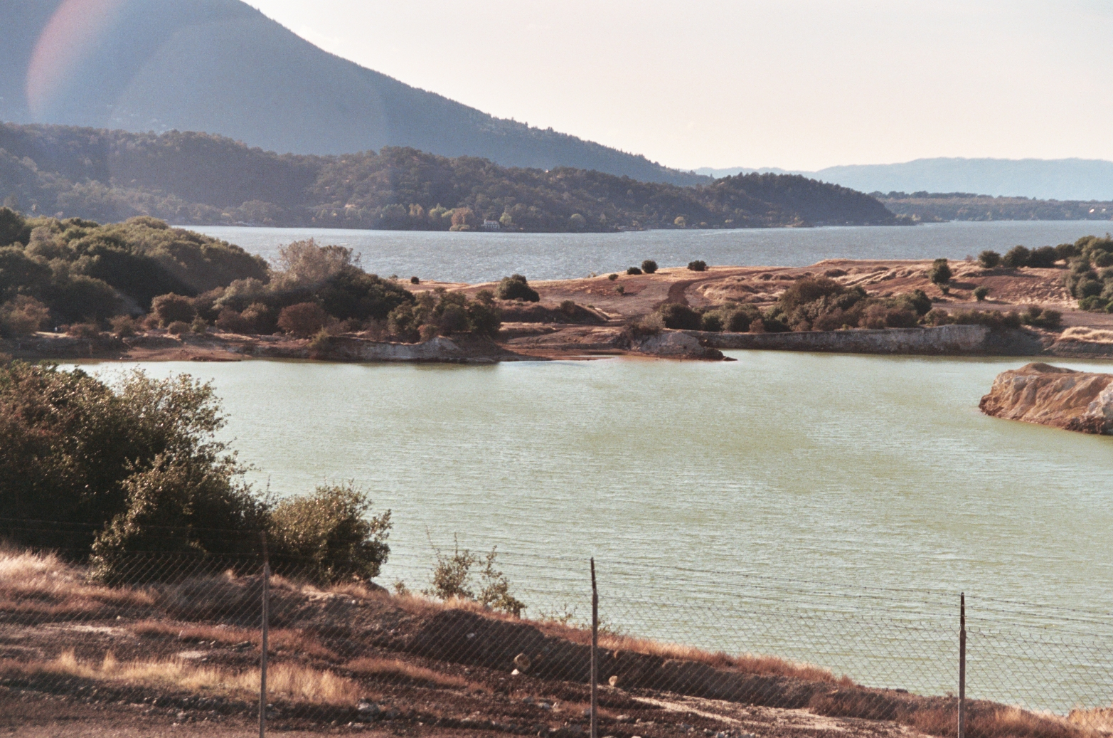 The flooded Herman mining pit in foreground, then Clear Lake with the NE slope of Mt. Konocti in background - Lake County, California.